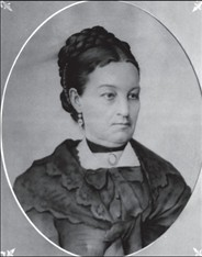 Gertrudes Eufrosina Amaral da Rocha Conceição, Baronesa de Serra Negra